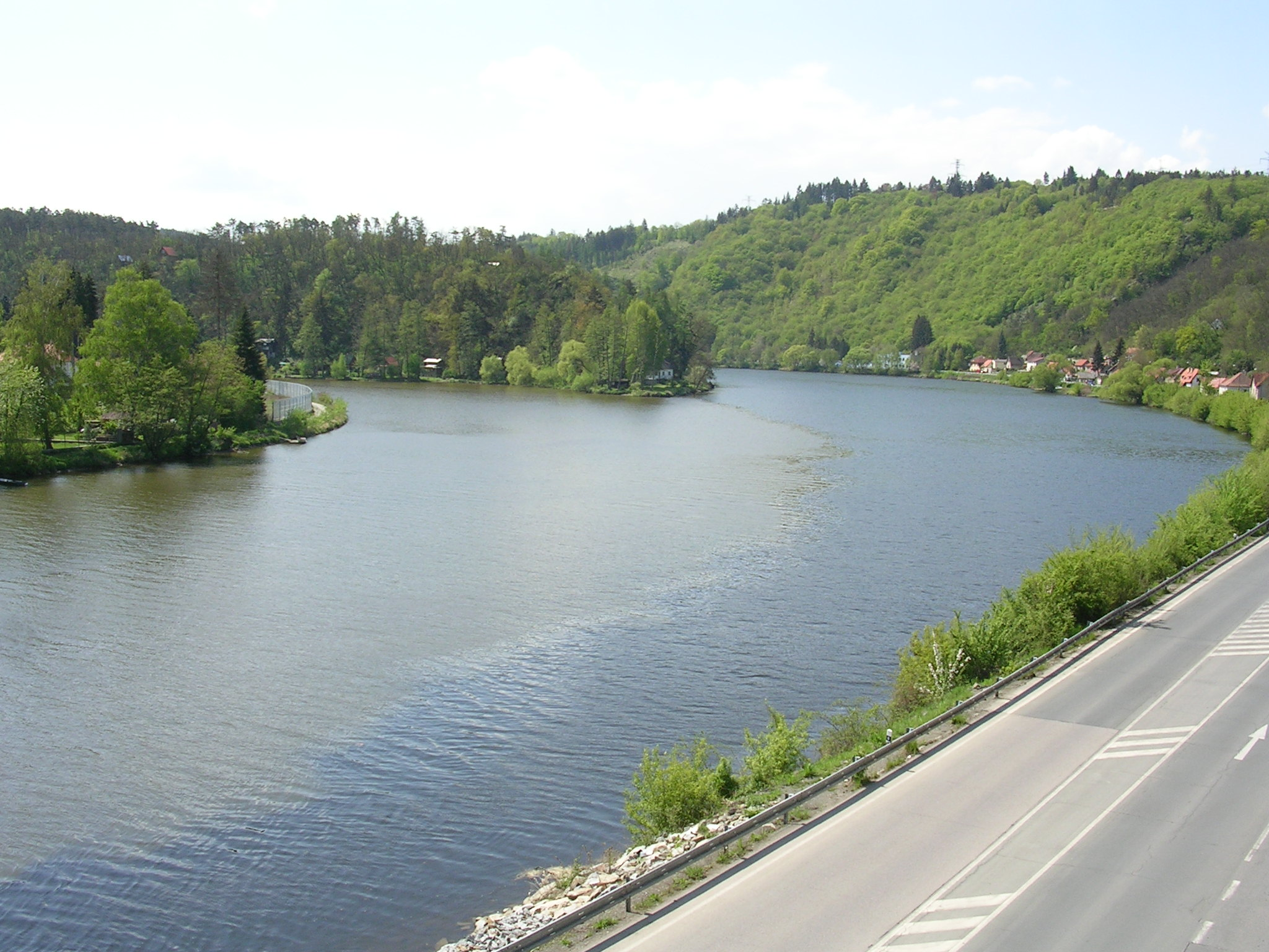 Davle, the Czech Republic. Confluence of Vltava River and Sázava River.